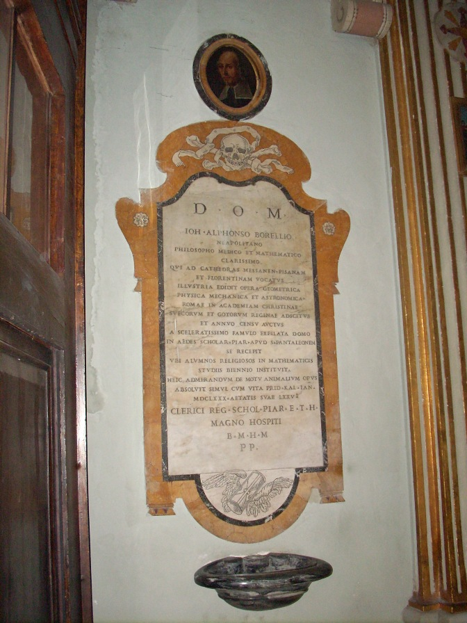 The funereal monument of Giovanni Alfonso Borelli.